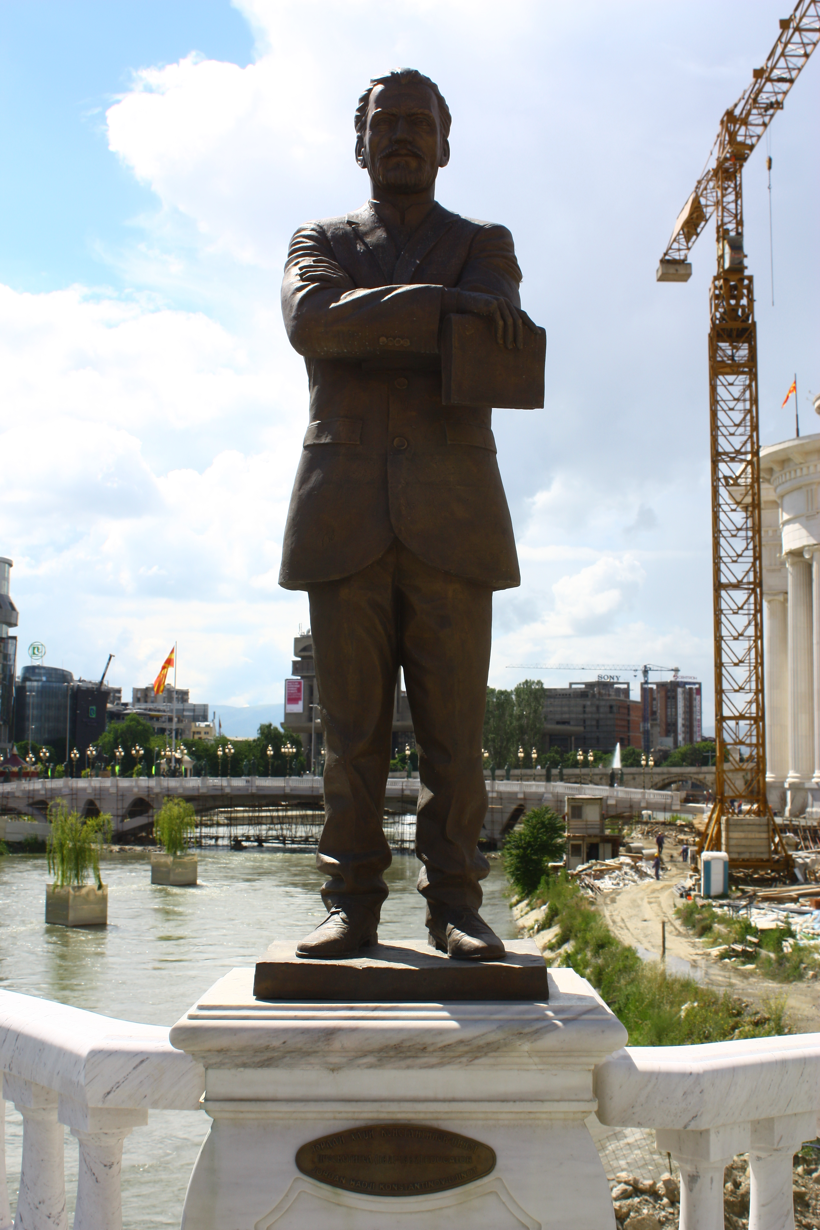 Sculpture od the Bridge of Arts in Skopje, Macedonia This image is uploaded as part of the picture contest Wiki Loves Cultural Heritage in Macedonia 2013. English | македонски | +/−